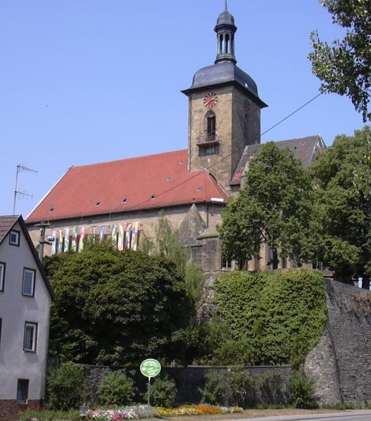 Church of St. Regiswindis in Lauffen am Neckar, Germany